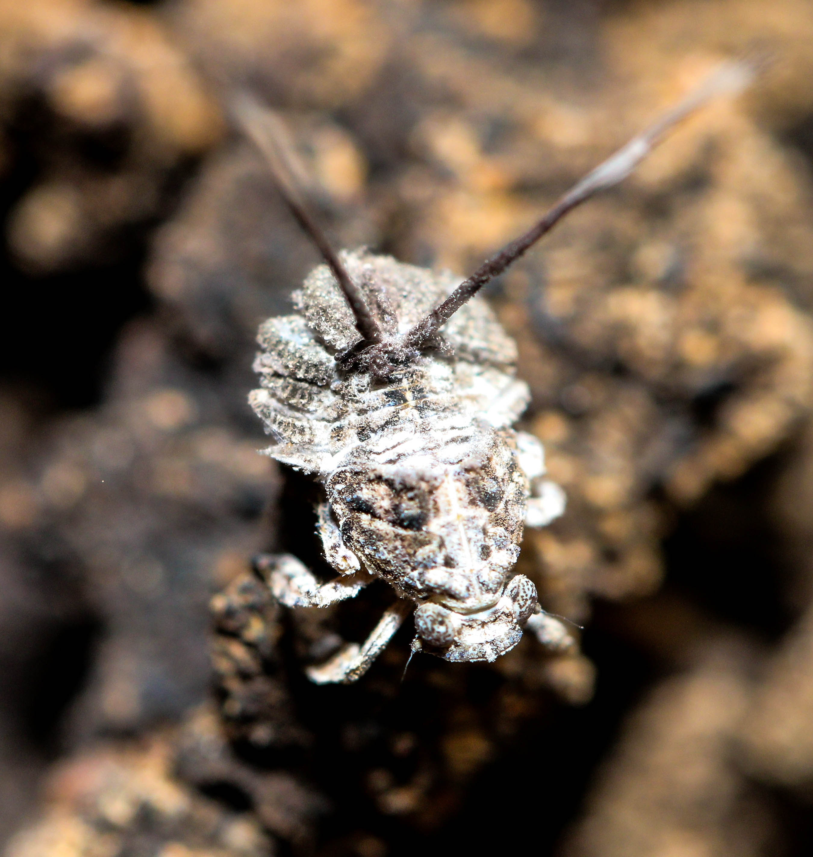 Nymph of Unidentified Eurybrachyidae observed in Botswana near Gaborone